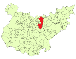 Don Benito, spanish municipality in the province of Badajoz, Extremadura.